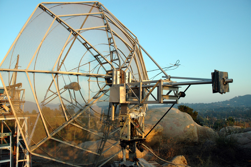 A parabolic dish antenna used for EME (Moonbounce) amateur radio communication on 430 MHz and above. Photograph by Henryk Kotowski in September 2006 at Amateur Radio Station WA6PY in California, USA.